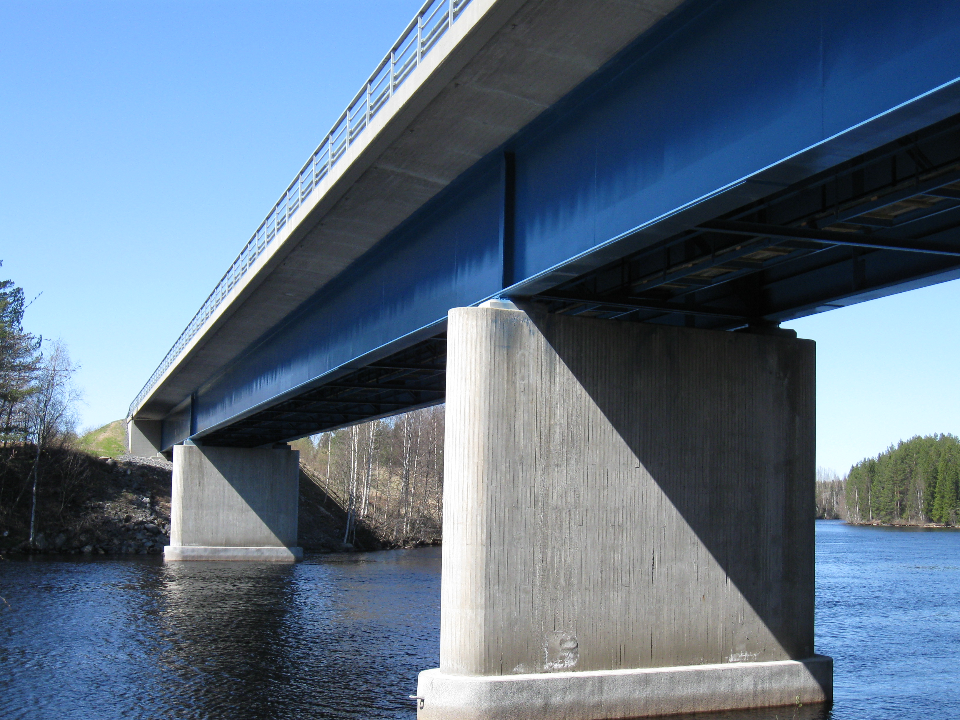 The road bridge on highway 22 across the Oulujoki river in Utajärvi, Finland.